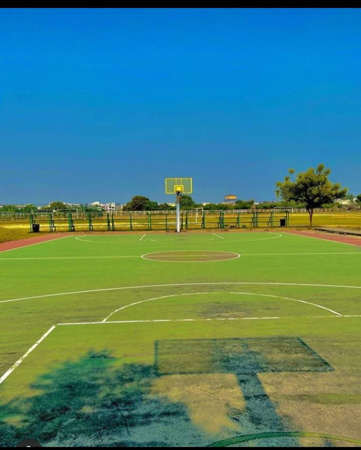 THIS IS A TENNIS COURT OF PLAYGROUND.